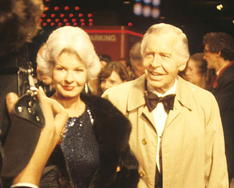 Milton Berle and wife arrive at the premiere of Bette Midler's movie, THE ROSE, 1979.